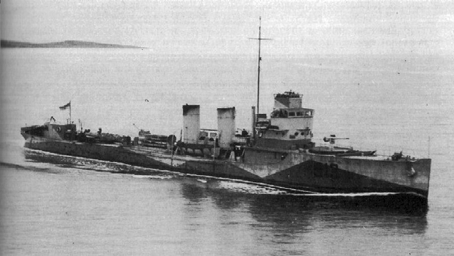 Royal Canadian Navy armed yacht/patrol vessel HMCS Renard (S13), later Z13, during World War II.